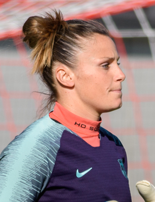 Sandra Paños warming up for the Champions LEague match vs Fc Bayern München